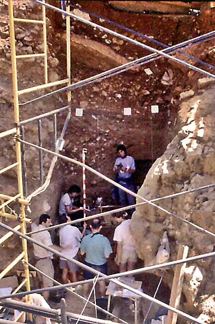 Atapuerca, site of Gran Dolina (Burgos, Spain): José-María Bermúdez de Castro and Aurora Martín are witnesses of important discoveries in the «Aurora Stratum».